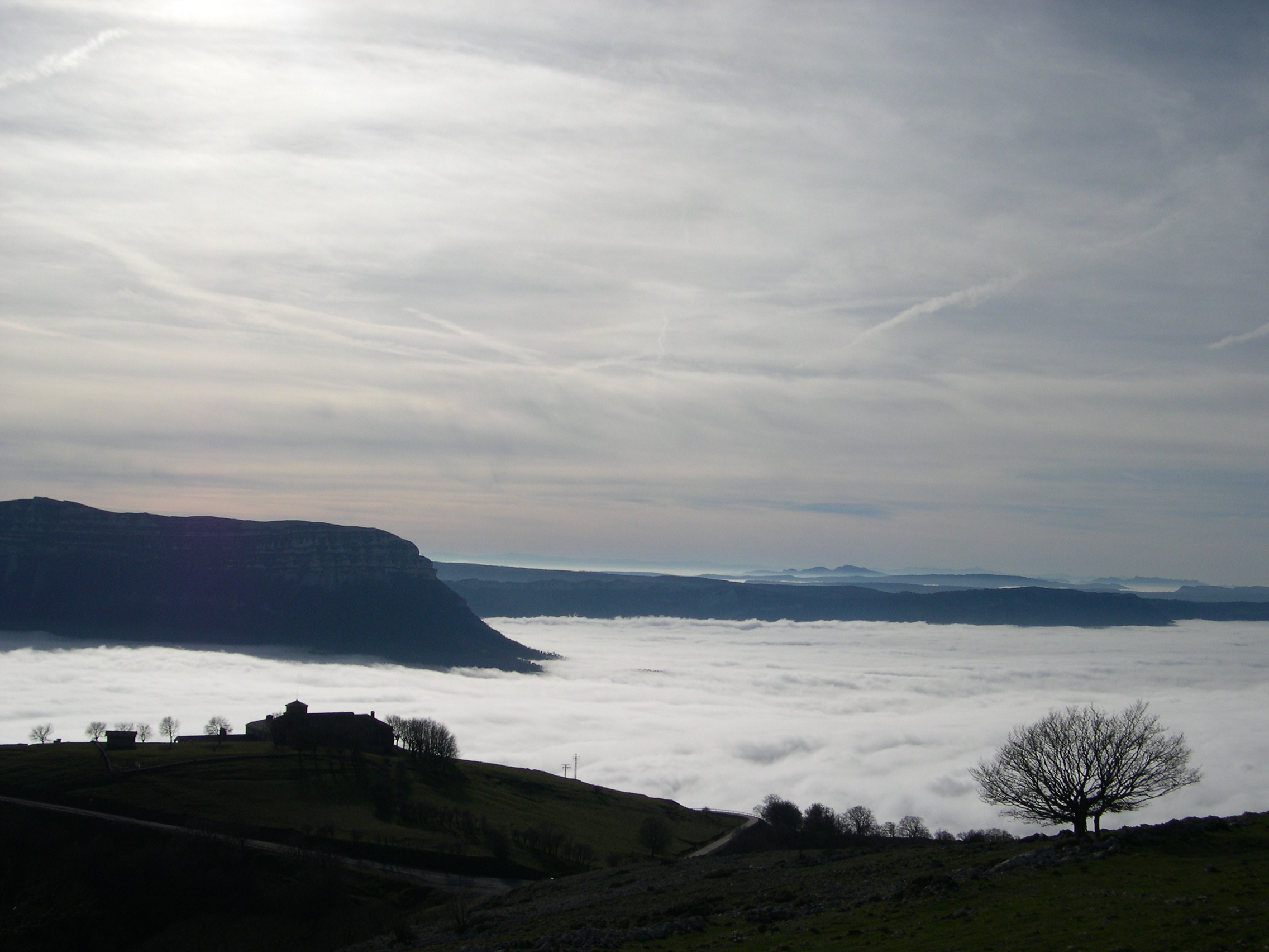 Aralar. San Miguel in Excelsis Church. Navarre. Basque Country.